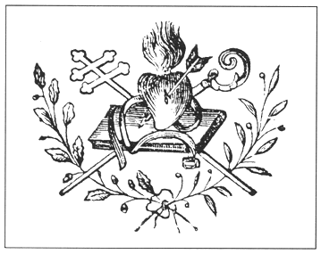 Seal of the Order of Saint Augustin, from the Constitution printed in Rome, 1893